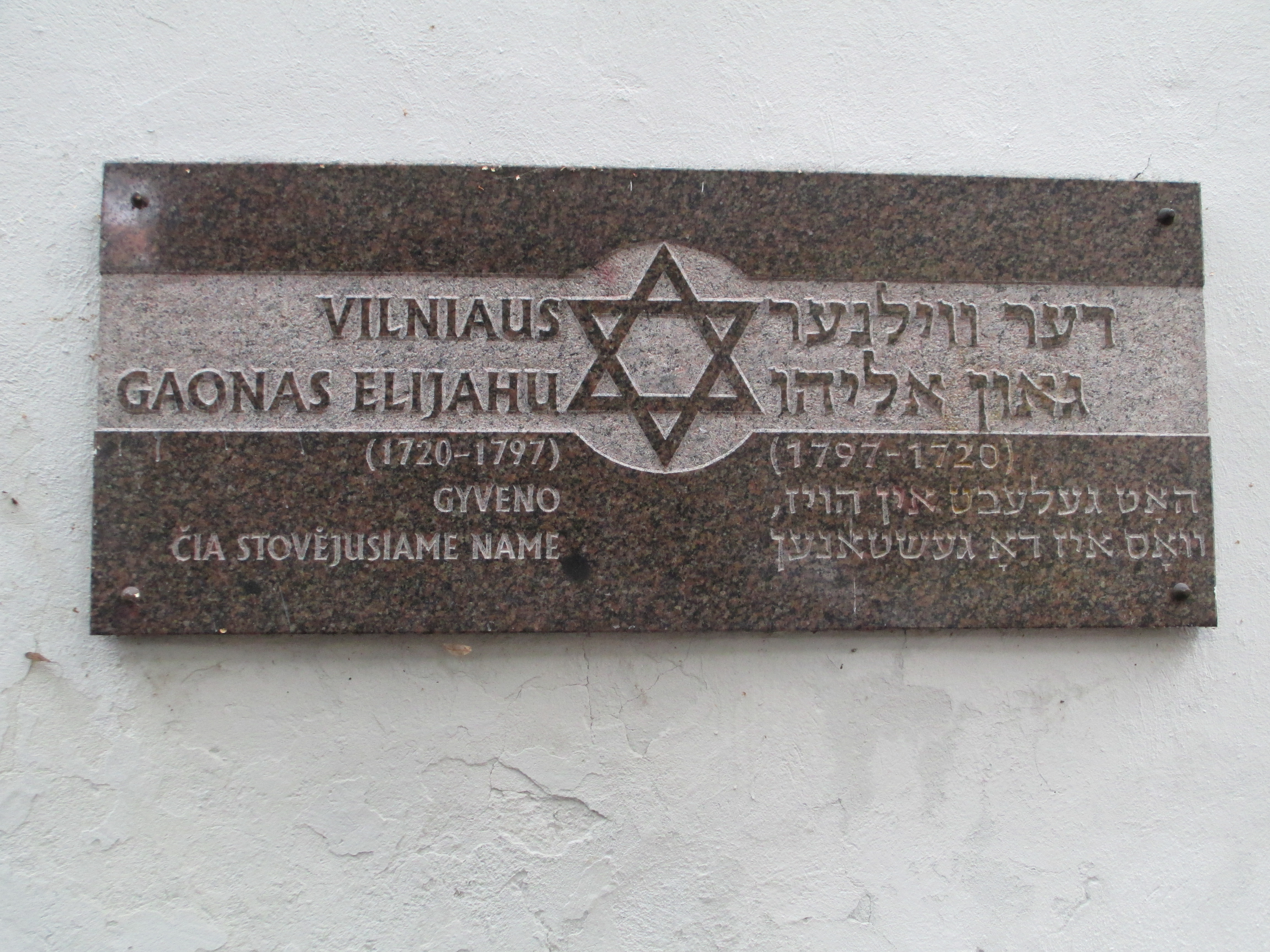 Memorial plaque about the gaon of vilna, vilnius